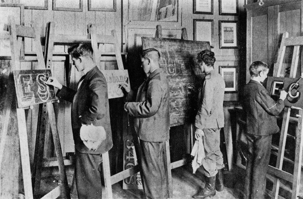 Interior of Brisbane Technical College Signwriting class, ca. 1900 Students practising lettering on blackboards and signboards.